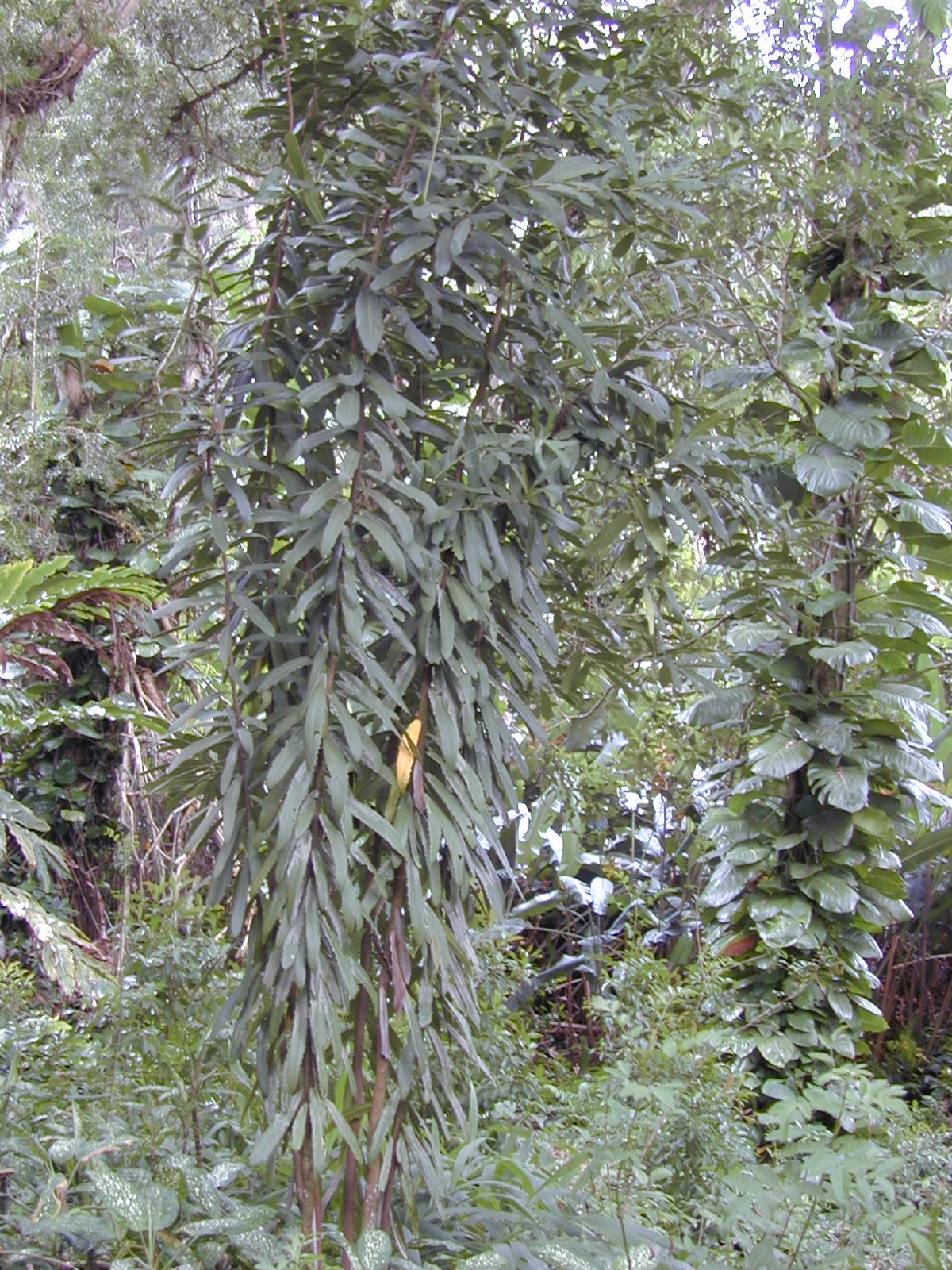 Brexia madagascariensis (habit). Location: Maui, Kaumahina